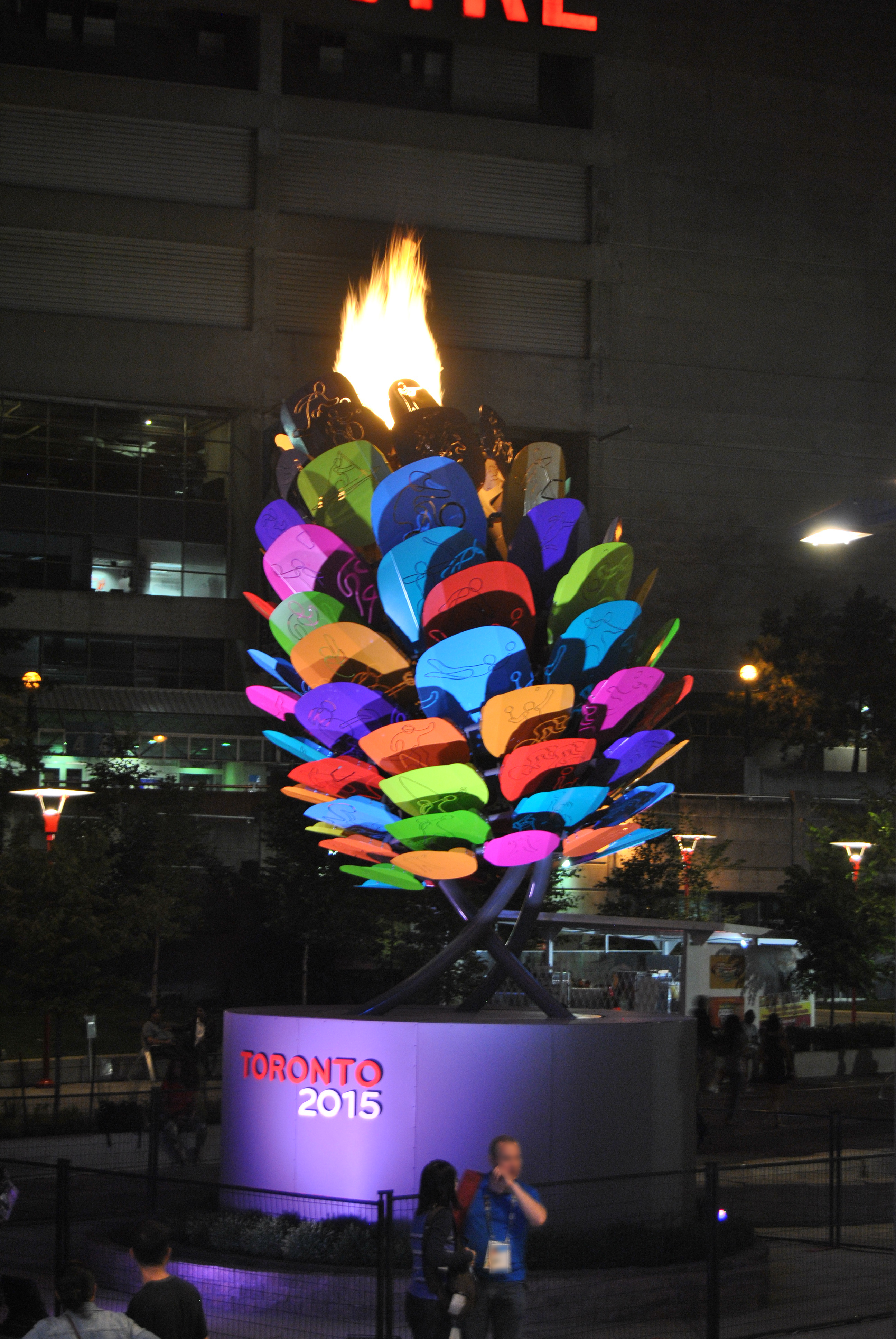 The cauldron of the 2015 Pan American Games (Toronto 2015) is the active holding place of the games flame from the opening ceremonies (July 10, 2015) until the closing ceremonies (July 26, 2015) of the games. The cauldron will also be active for the time being of the 2015 Para-Pan Am Games from August 7-15, 2015. The cauldron itself is located in downtown Toronto, beside the Rogers Centre (known during the Pan Am games as the Pan Am Dome, which hosted the opening and closing ceremonies) and in the grounds of the CN Tower. The cauldron was developed by games supplier and Canadian-based steel company Dofasco.